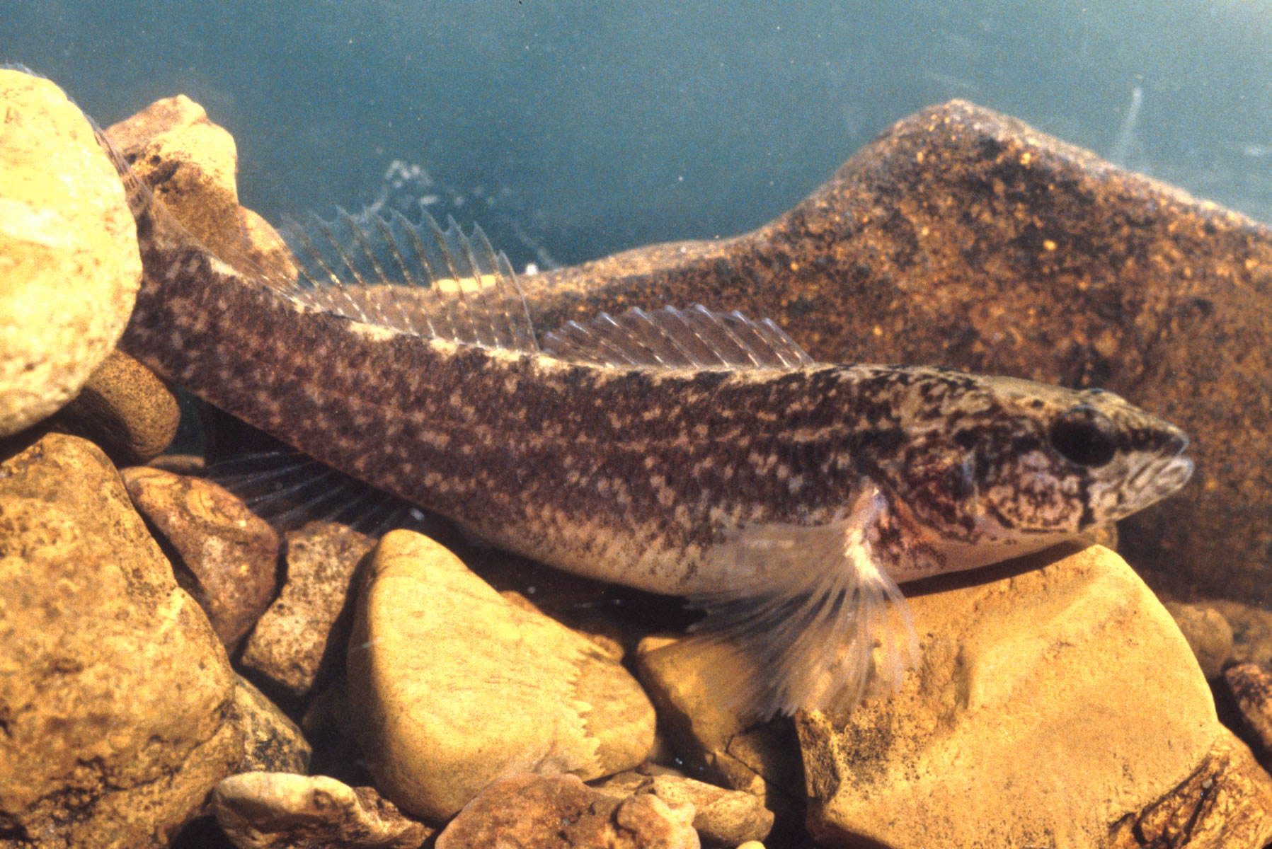 Etheostoma chienense USFWS photo